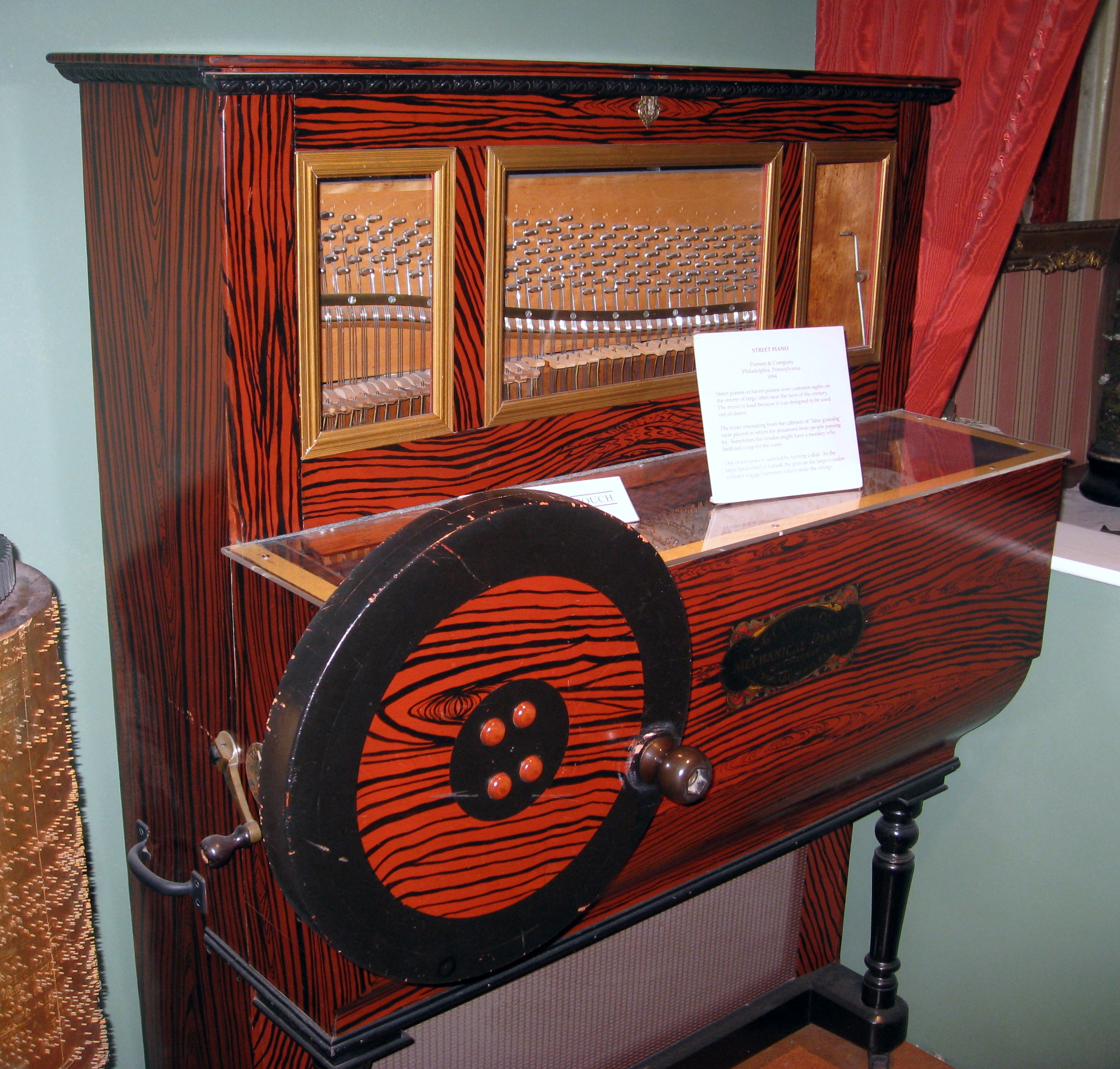 St. Augustine - Historic Alcazar Hotel - Lightner Museum - Street Piano STREET PIANO Pornent & Company Phuladelphia Pensylvania 1894 Street pianos or barrel pianos were common sights on the streets of large cities near the torn of the century. The music is loud because it was designed to be used out-of-doors. The tunes resonating from the cabinets of "false graining" were played in return for donations from people passing by. Sometimes the vendor might have a monkey who held out a cup for the coins. One of ten tunes is selected by turning a dial. As the large handwheel is turned, the pins on the large wooden cylinder engage hammers which strike the strings.